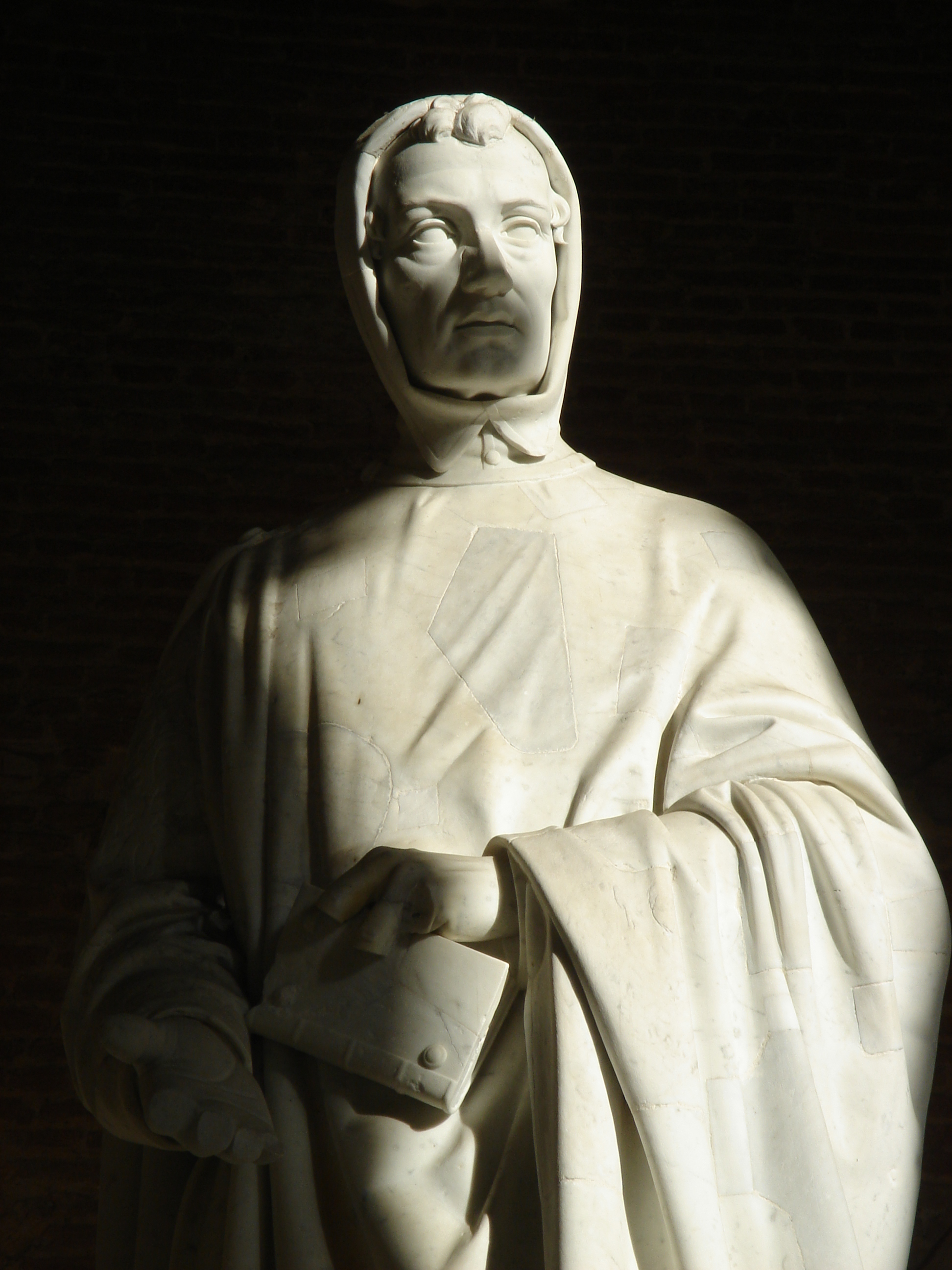 Monument of Leonardo da Pisa (Fibonacci), made by Giovanni Paganucci, completed in 1863, in the Camposanto di Pisa.